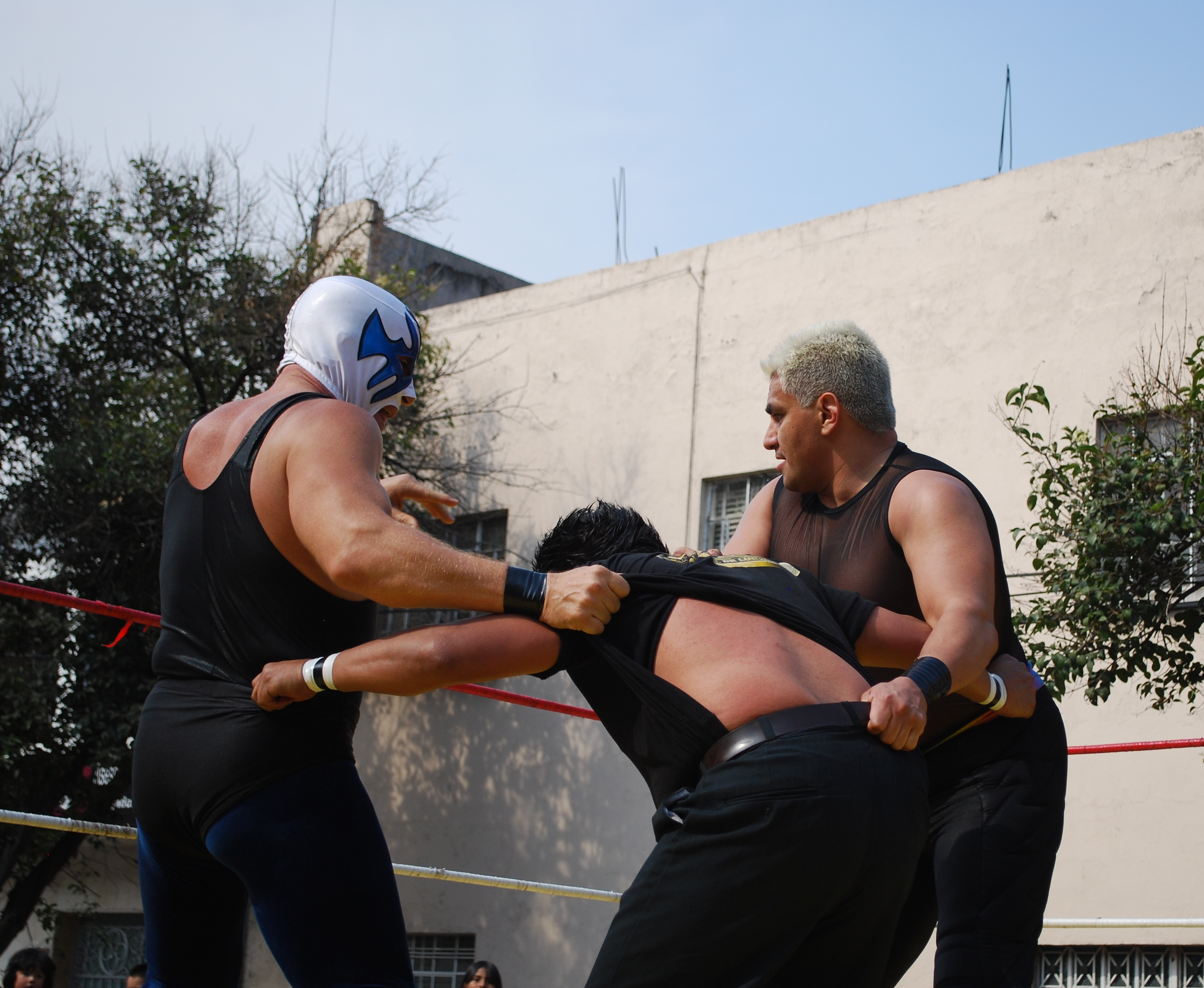 Last match at a CMLL lucha libre event part of Festival Día de Reyes Territorial Obrera Doctores in Mexico City